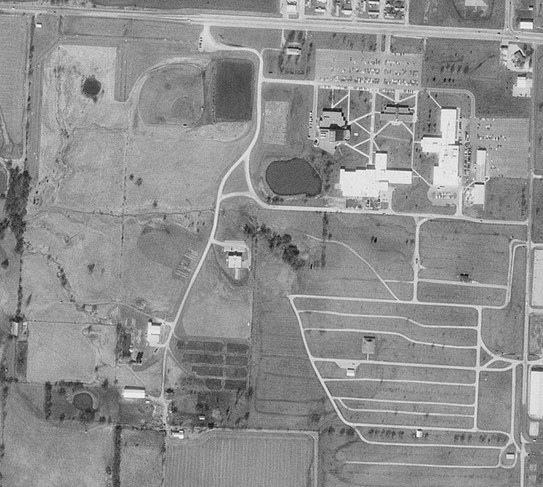 Aerial image of State Fair Community College